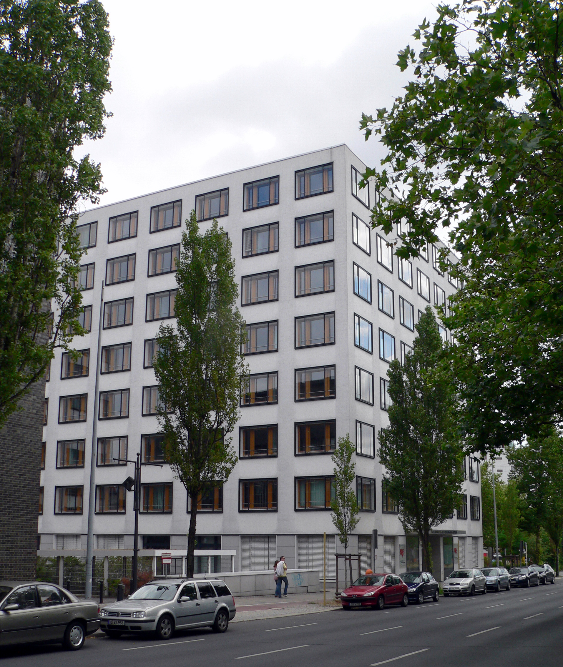 Berlin-Westend Building of "Kassenärztliche Vereinigung" at Masurenallee